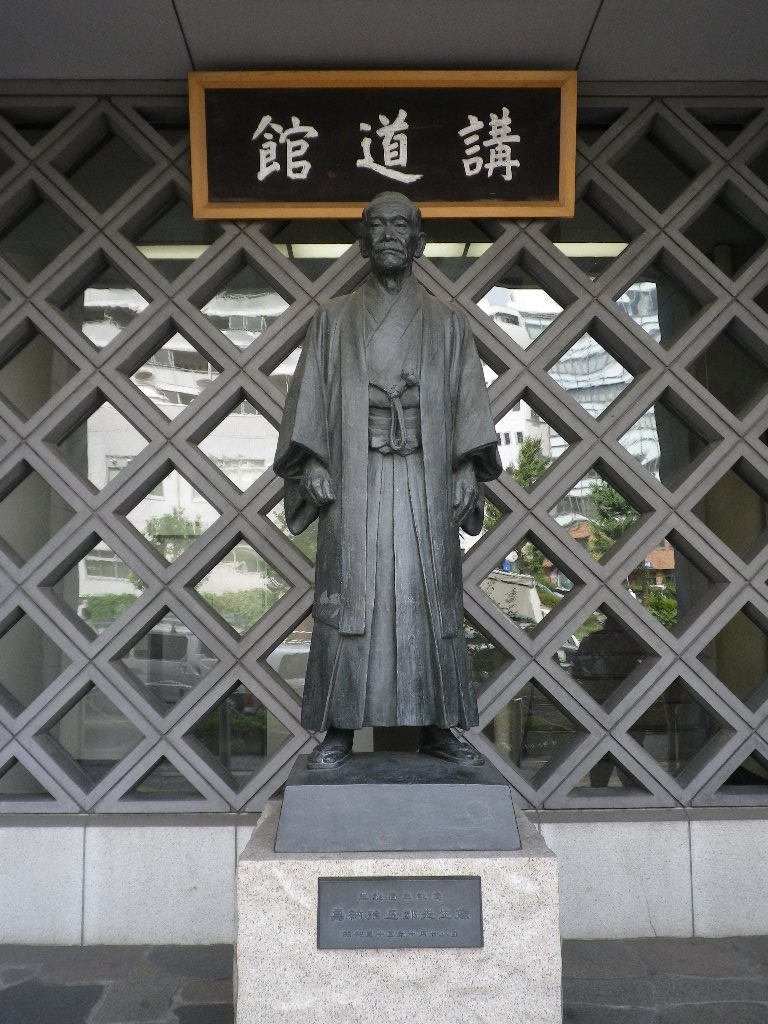 Statue of Kanō Jigorō in Kodokan Judo Institute (republished statue)